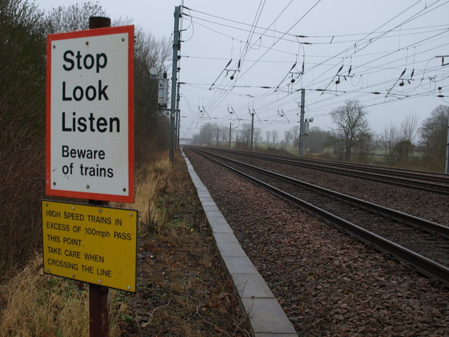 Railway crossing Footpath crossing the east coast main line near Casewick Park, Uffington